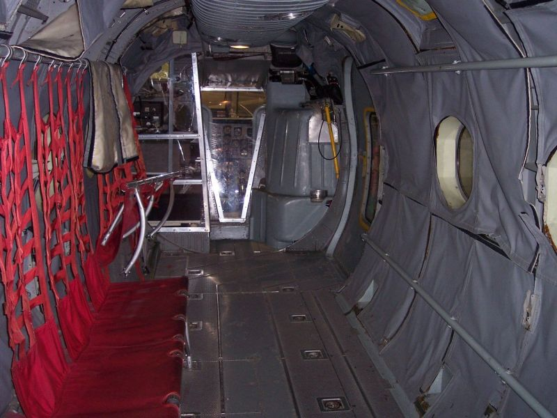 Swedish Piasecki H-21